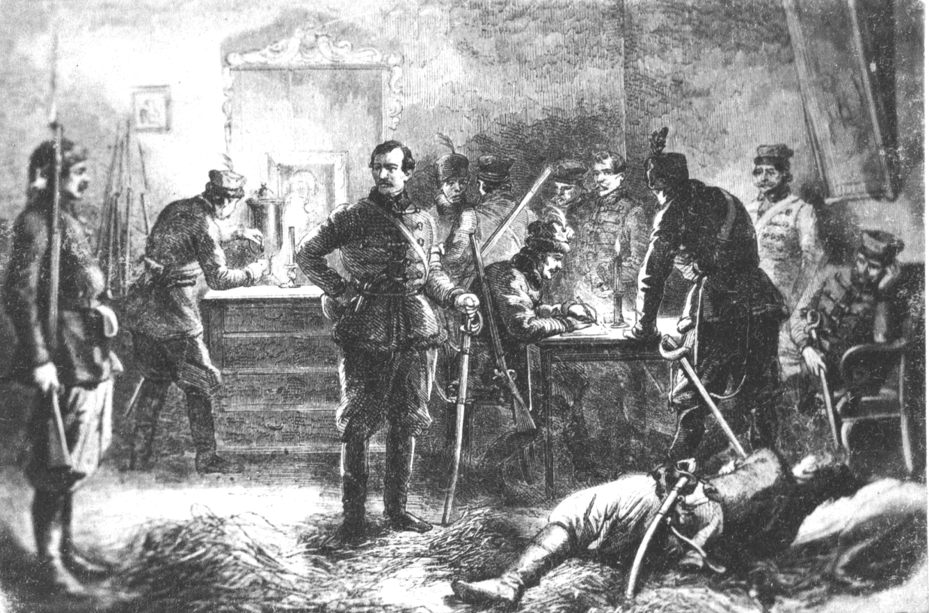 gen. Władysław Bentkowski with his staff during January Uprising